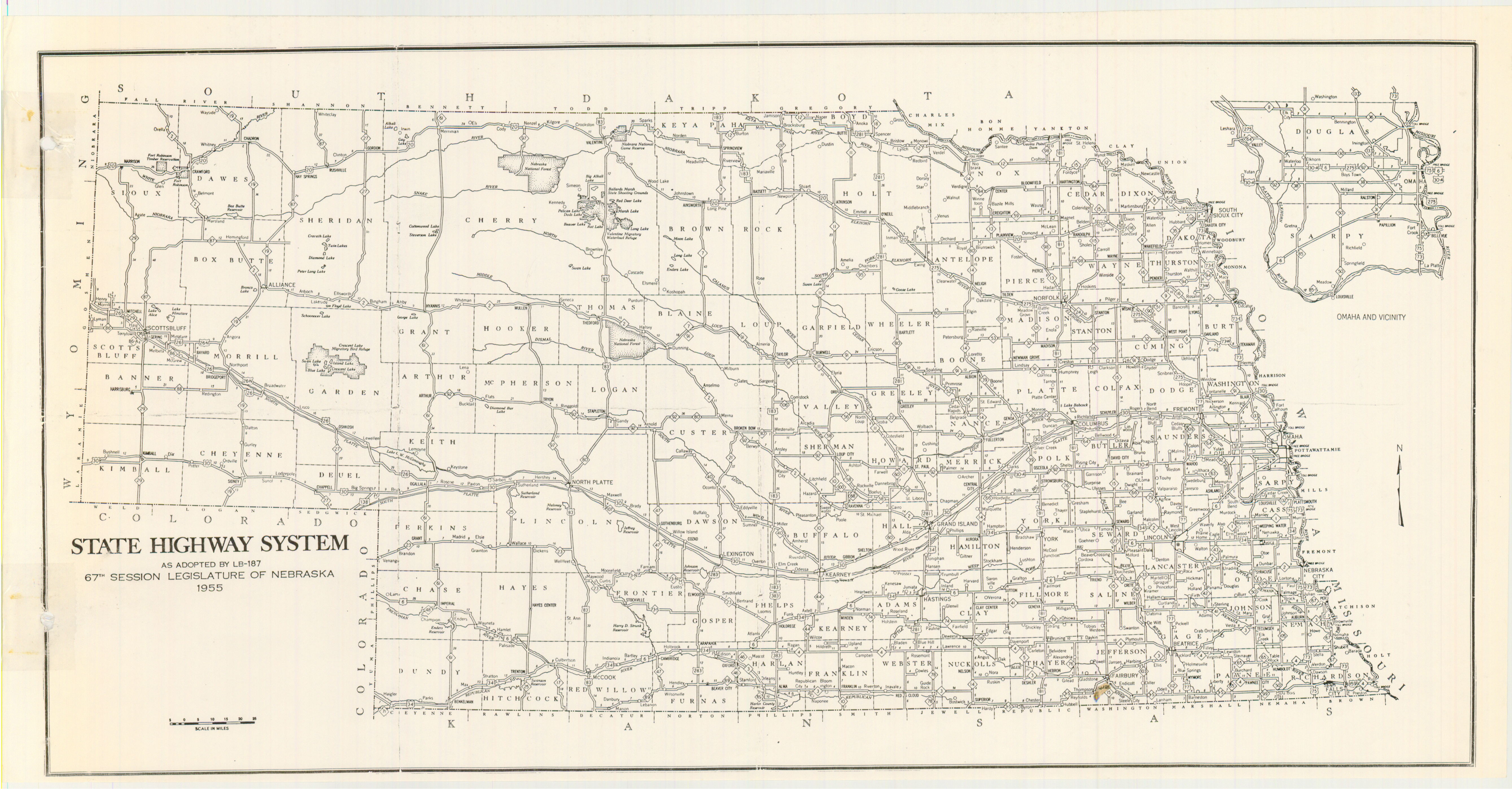 1955 Map of the Nebraska state highway system; as prepared by the Nebraska State Highway Commission for use by Legislative Bill 187 of the 67th Nebraska Legislature.